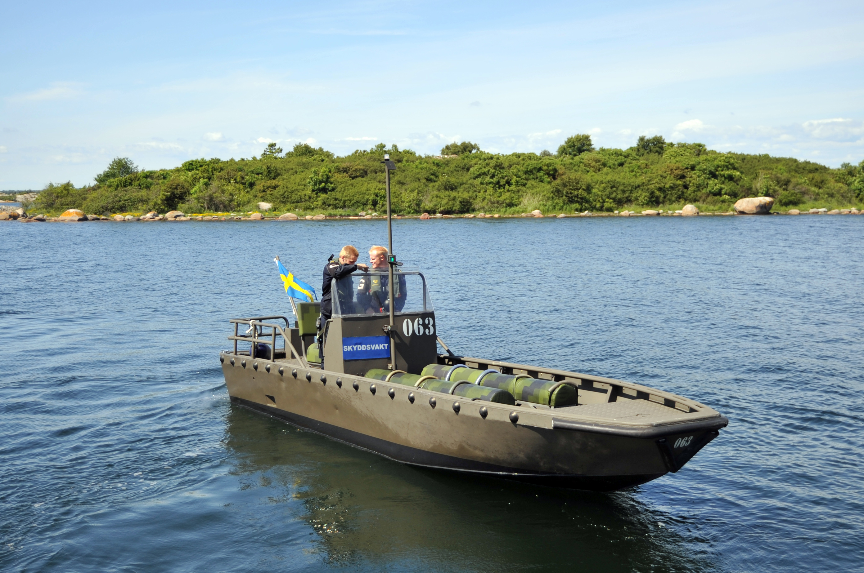 G-boat. Main purpose is to serve as landing craft for up to eight fully equipped troops and transport boat